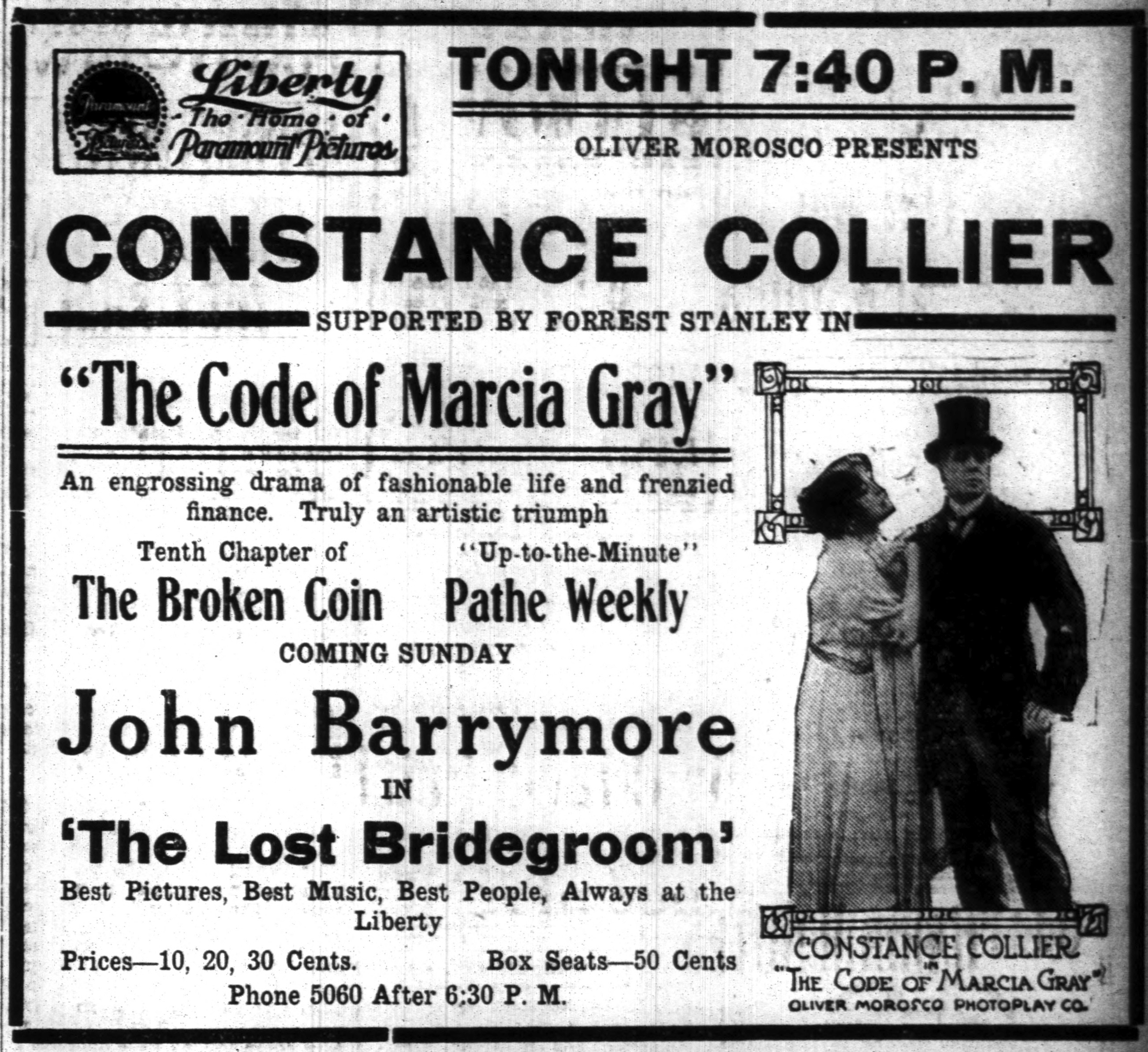 The Code of Marcia Gray is a 1916 silent romantic crime drama produced by Oliver Morosco, distributed through Paramount Pictures and directed by Frank Lloyd. Newspaper advert for the film.